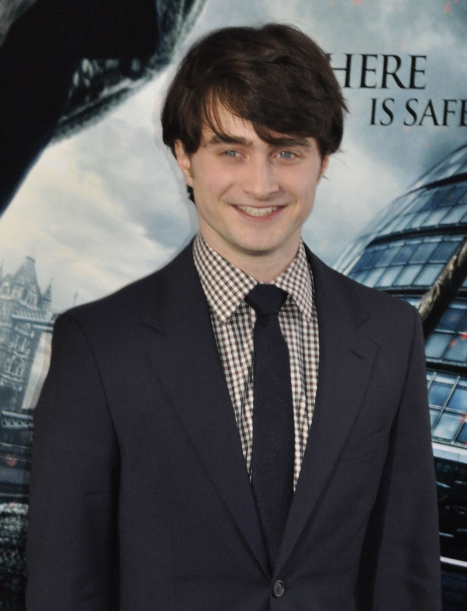 Daniel Radcliffe at the film premiere of Harry Potter and The Deathly Hallows in Alice Tully Hall, New York City in November 2010.